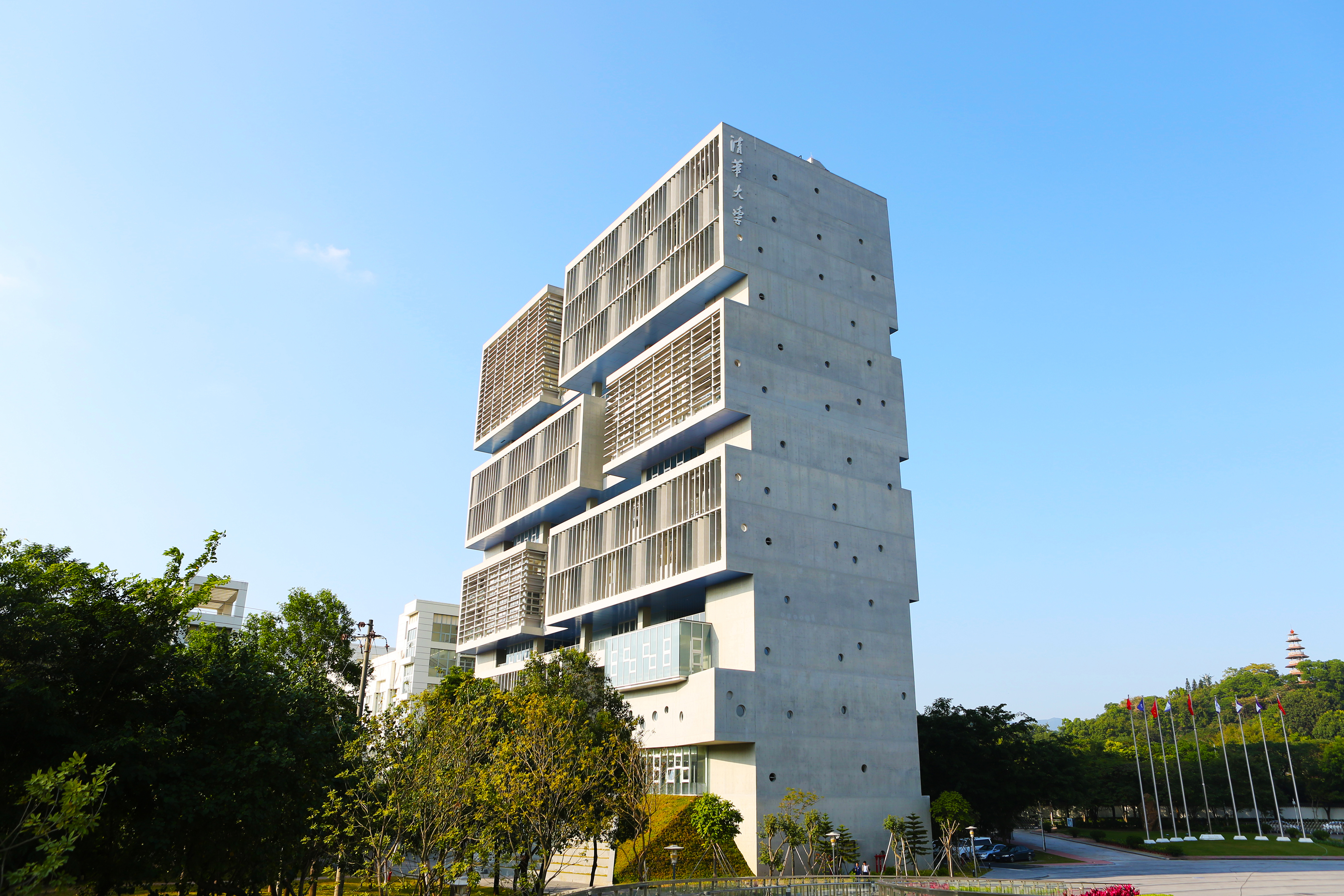 Tsinghua Ocean Center at Tsinghua SIGS